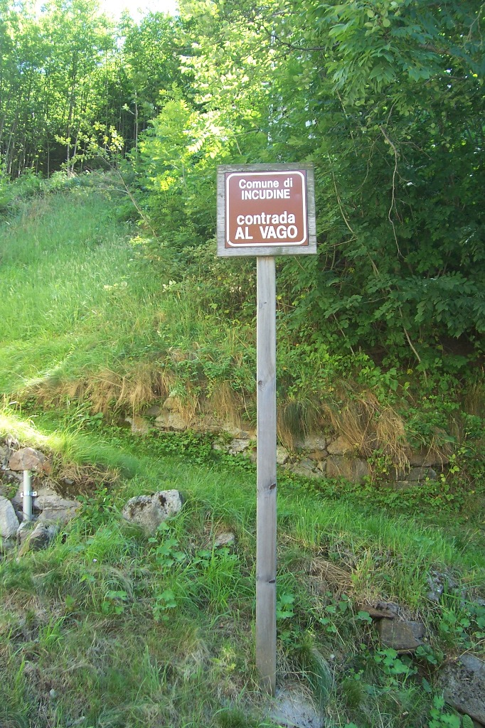 Vago Locality. Incudine, Val Camonica, Italy